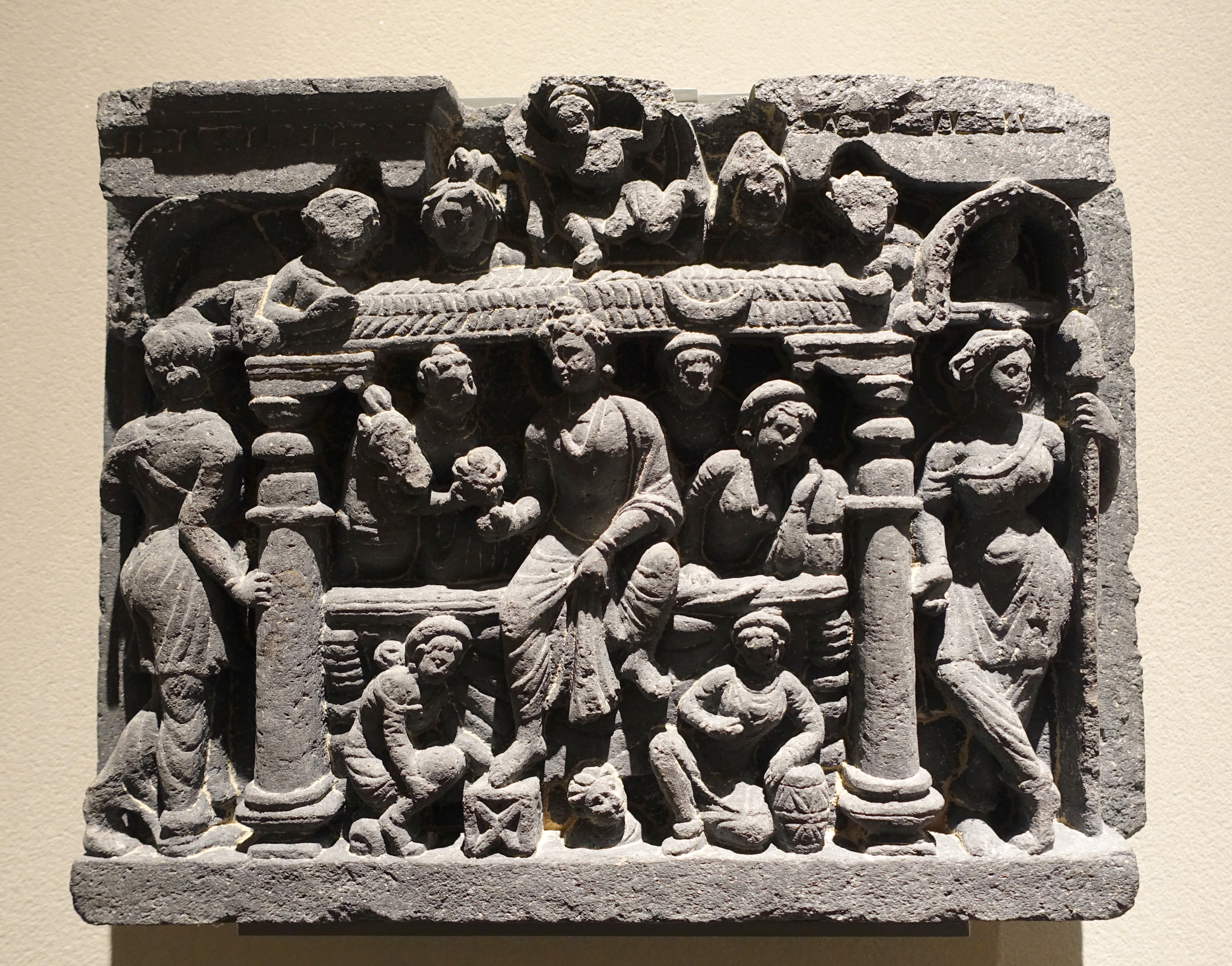 Exhibit in the Ethnological Museum, Berlin, Germany.